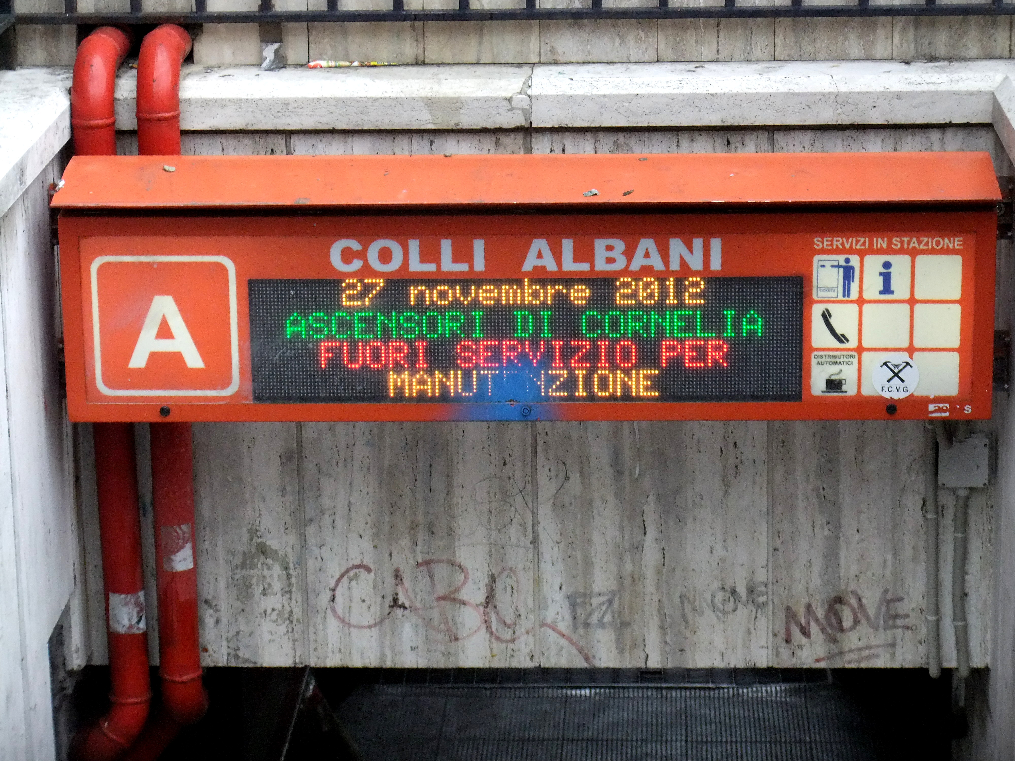 Entrance of Colli Albani station on line A. Source of the picture is